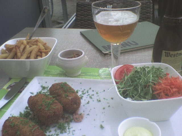 croquette shrimp flemmish art with bier and french fries